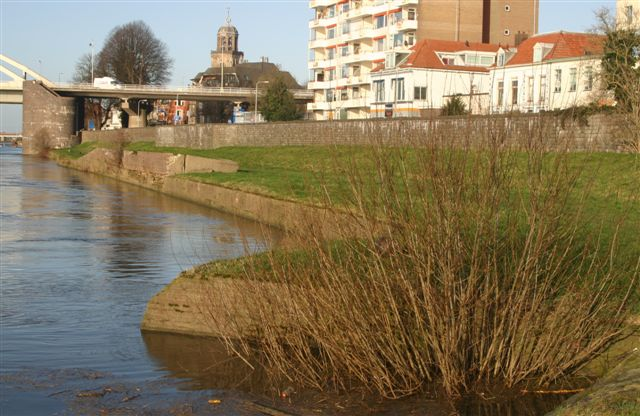 Projecting point of fortifications. See also File:Voorm.Aanlegkade bunkerschip shell pothoofd TN.JPG.